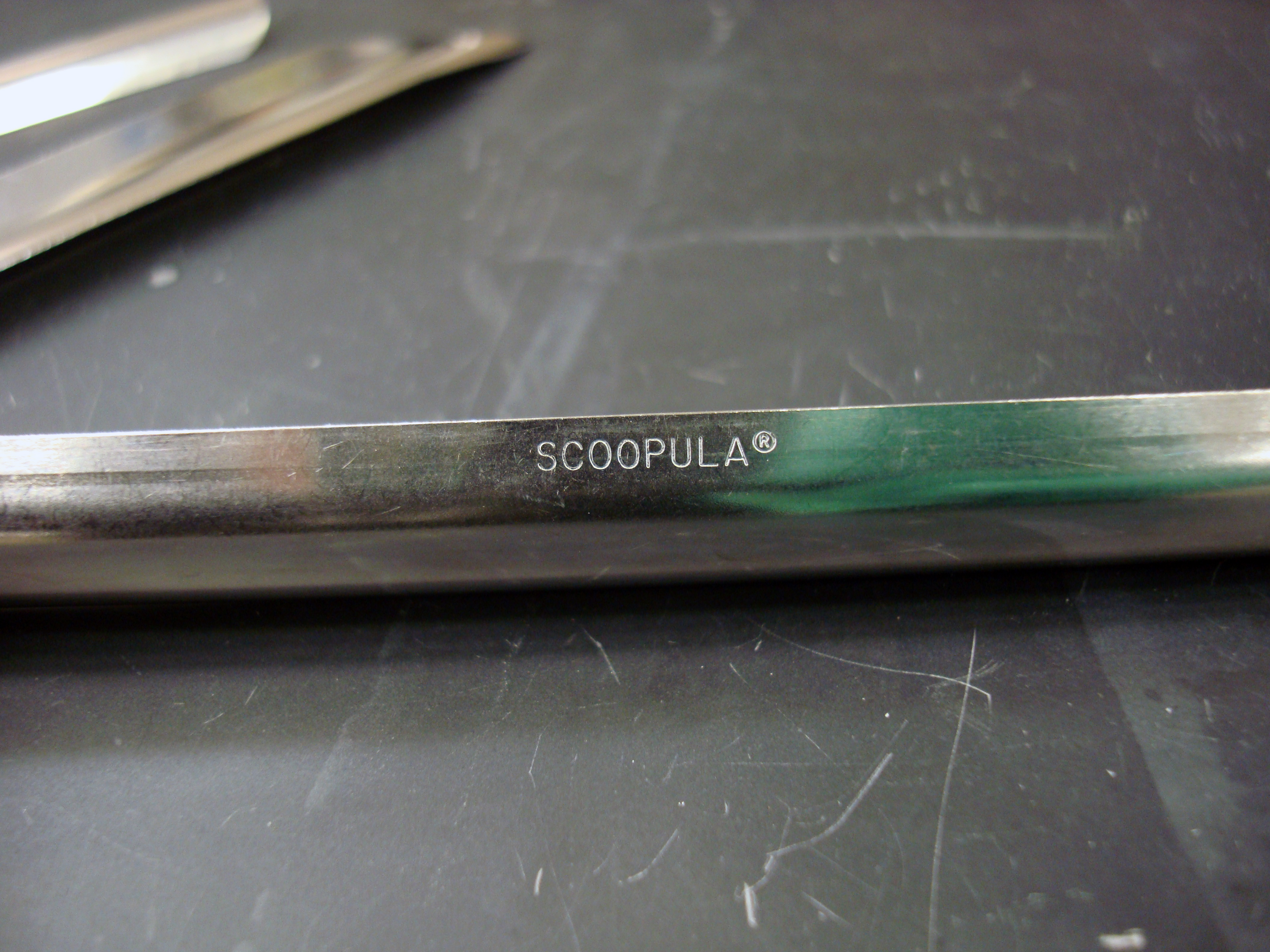 Picture of a Scoopula close up to show the logo clearly